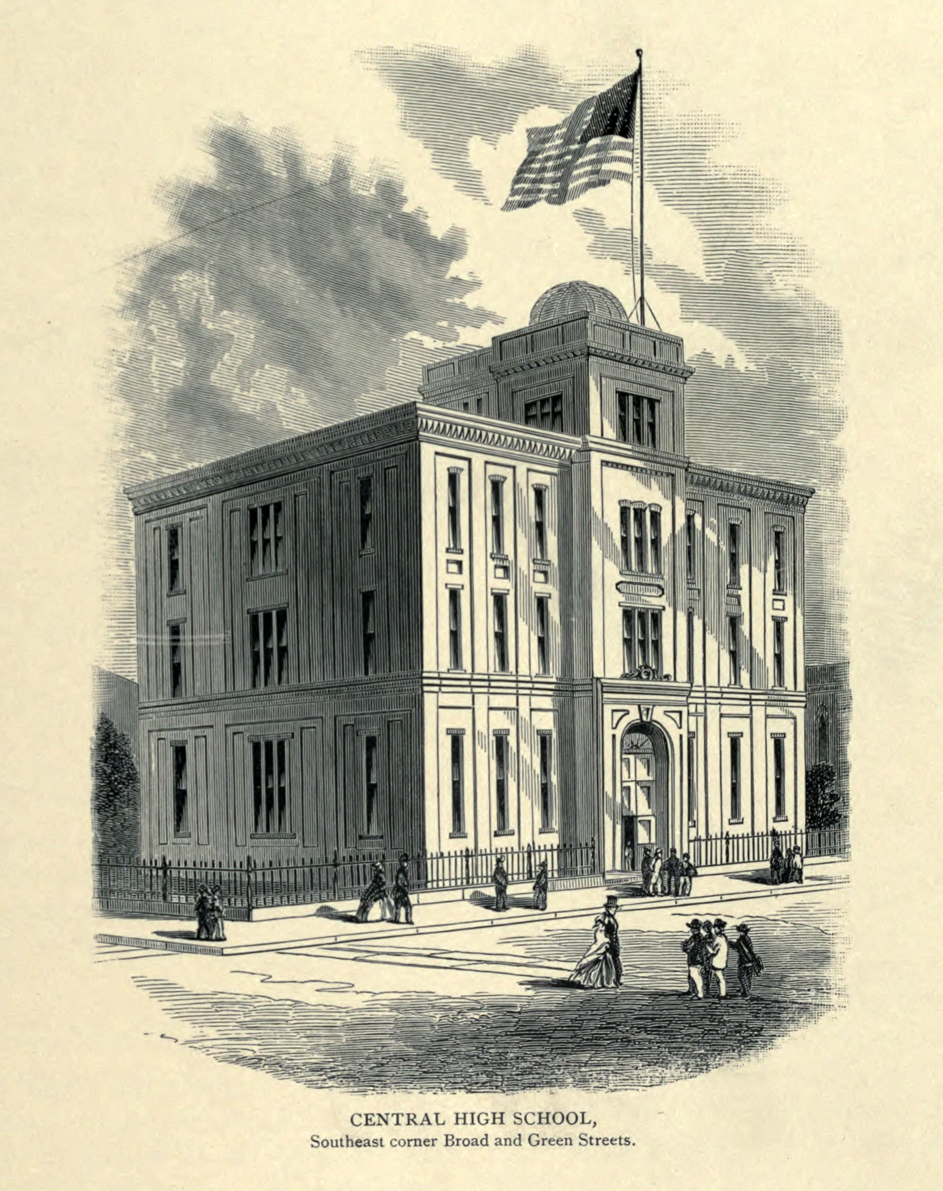 Central High School, Southeast corner Broad and Green Streets, Philadelphia PA (1854), from The Public Schools of Philadelphia: Historical, Biographical, Statistical by John Trevor Custis, Burk & McFetridge Co. Publisher, 1897 (